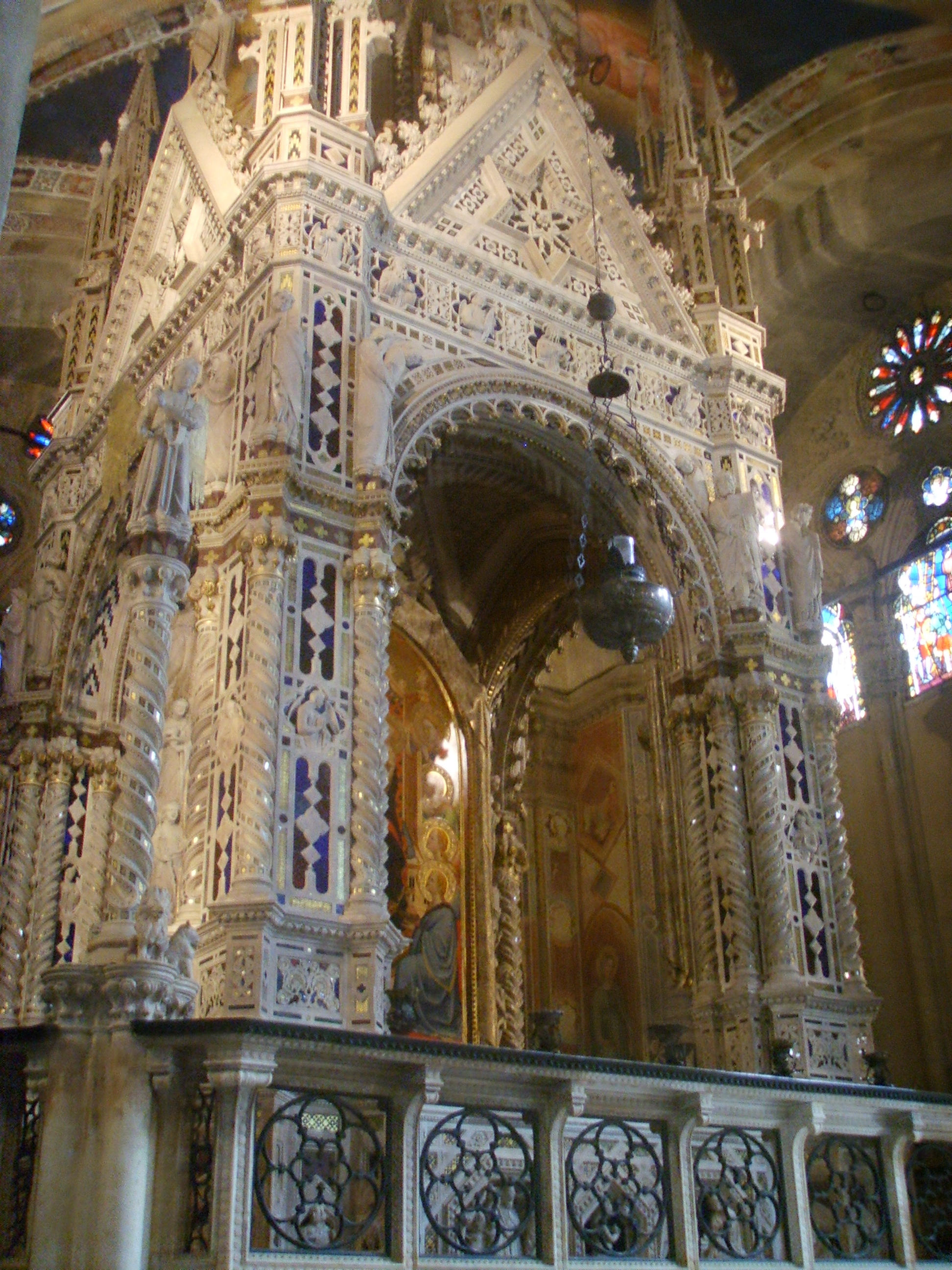 Orsanmichele church inside view, Orcagna's tabernacle in Florence, Italy